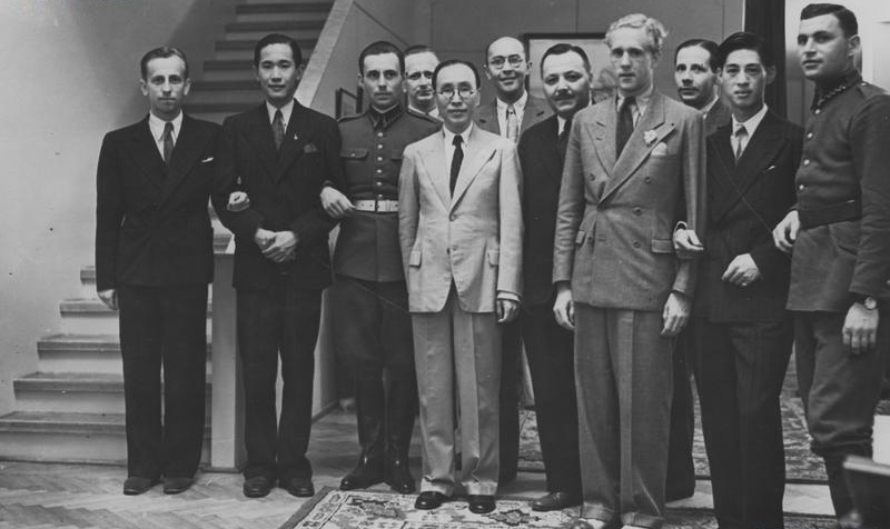 (from left): tennis players Ignatius Tłoczyński , Kho Sin Kie, Czeslaw Spychała; (from right) Kazimierz Tarłowski, Wai-Chuen Choy, Adam Baworowski the a Poland-China Davis Cup match in Warsaw